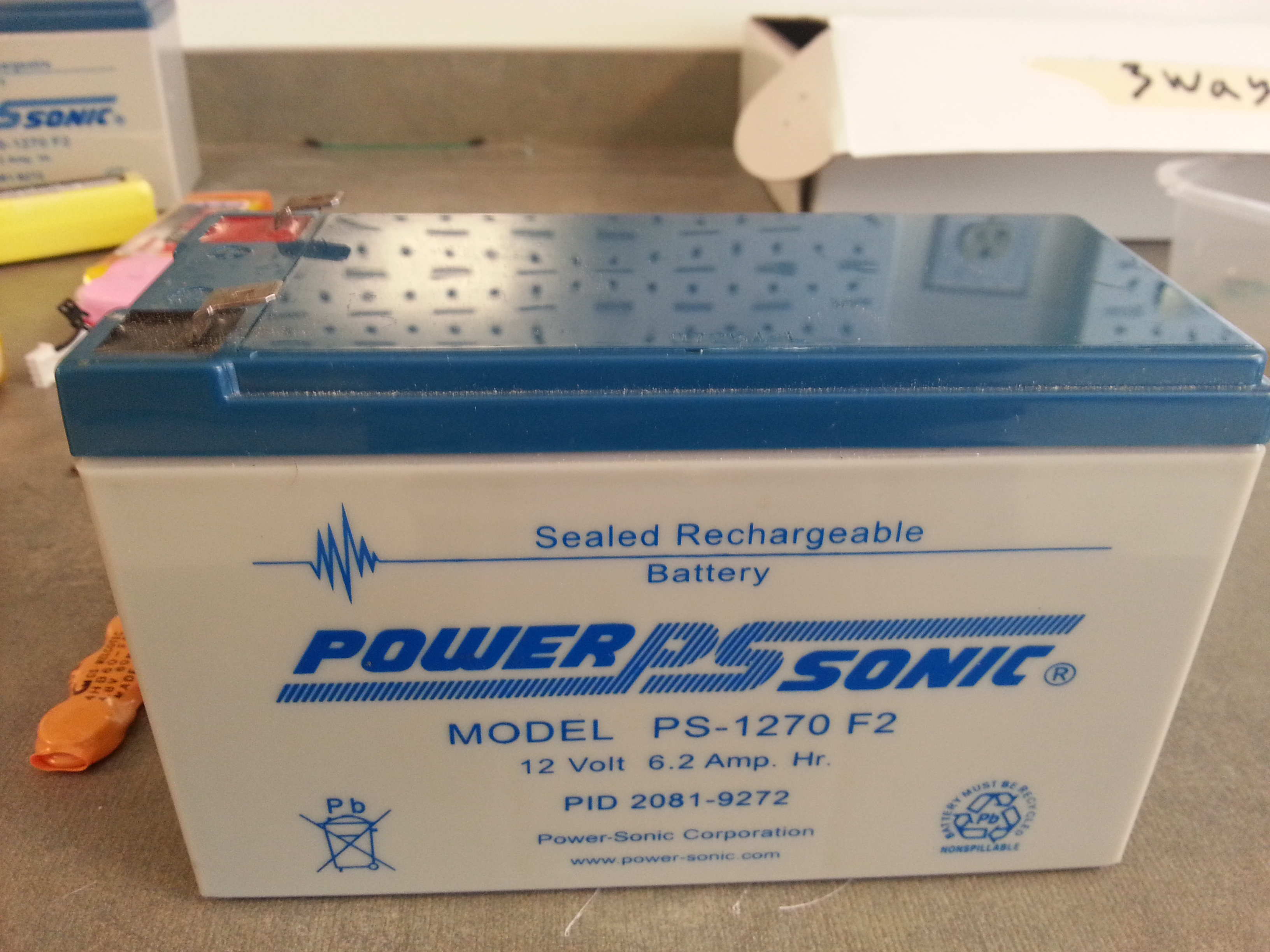 Lead Acid Battery